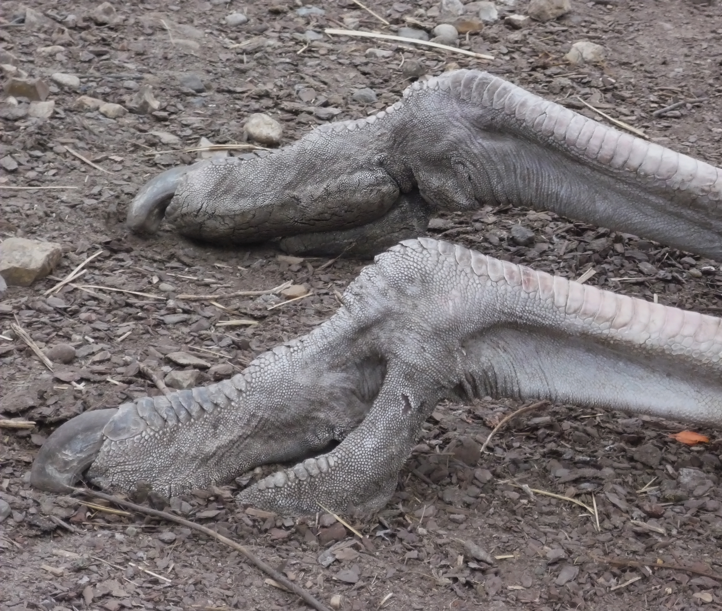 Feet of an african ostrich (Struthio camelus massaicus).